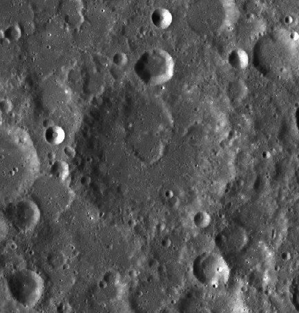 Wild lunar crater - LROC image